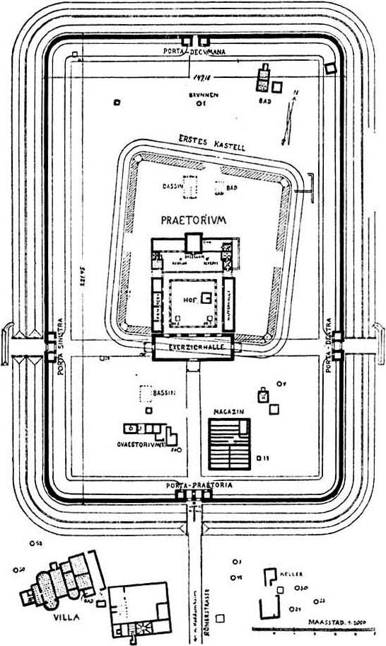 Saalburg castellum, plan.